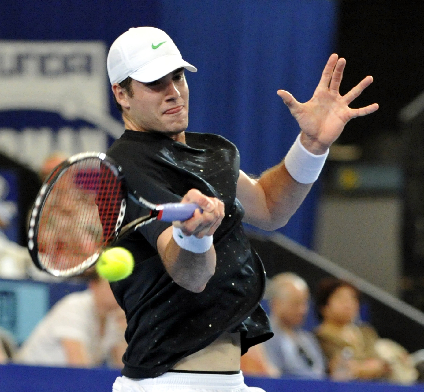 John Isner returning a shot.